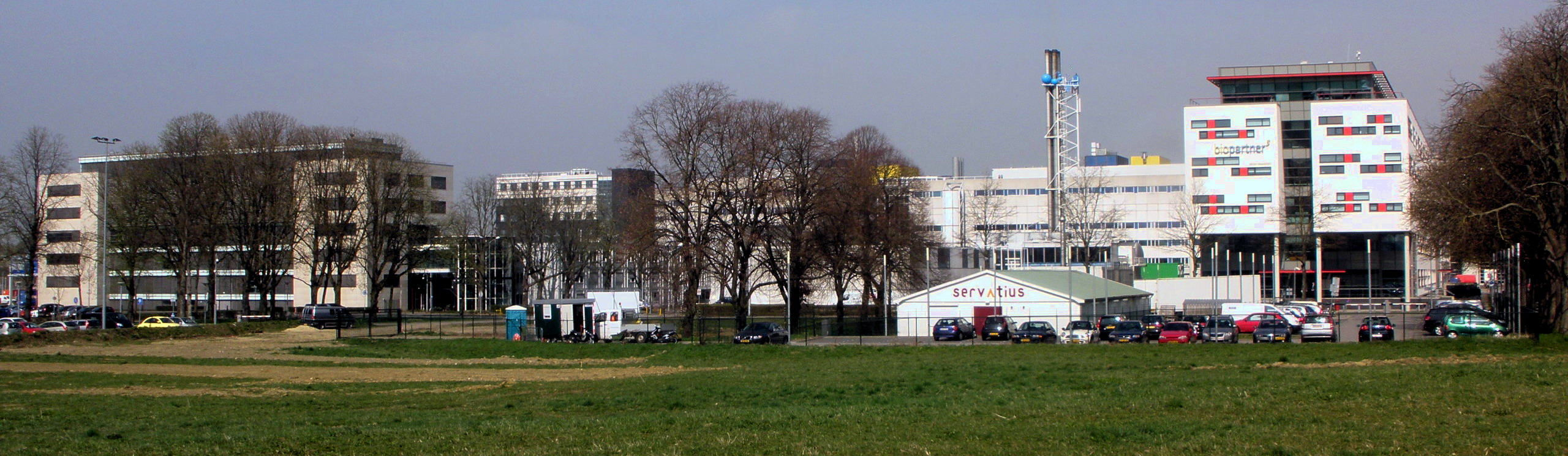 Maastricht, the Netherlands. View of Randwyck, the southeastern business and university district of Maastricht. To the left: university hospital. To the right: School for Midwifery (Academie Verloskunde), part of Zuyd University of Applied Sciences. Untill 2013 the building als housed BioPartner (or Brains Unlimited), the core of the Maastricht Health Campus. In 2013 Brains Unlimited moved to a new building on Oxfordlaan.)